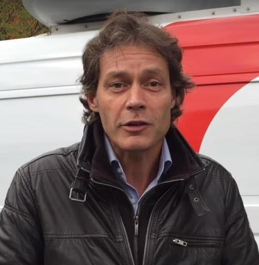 Joost Karhof, NPO Backstage Hackathon Nov 2015